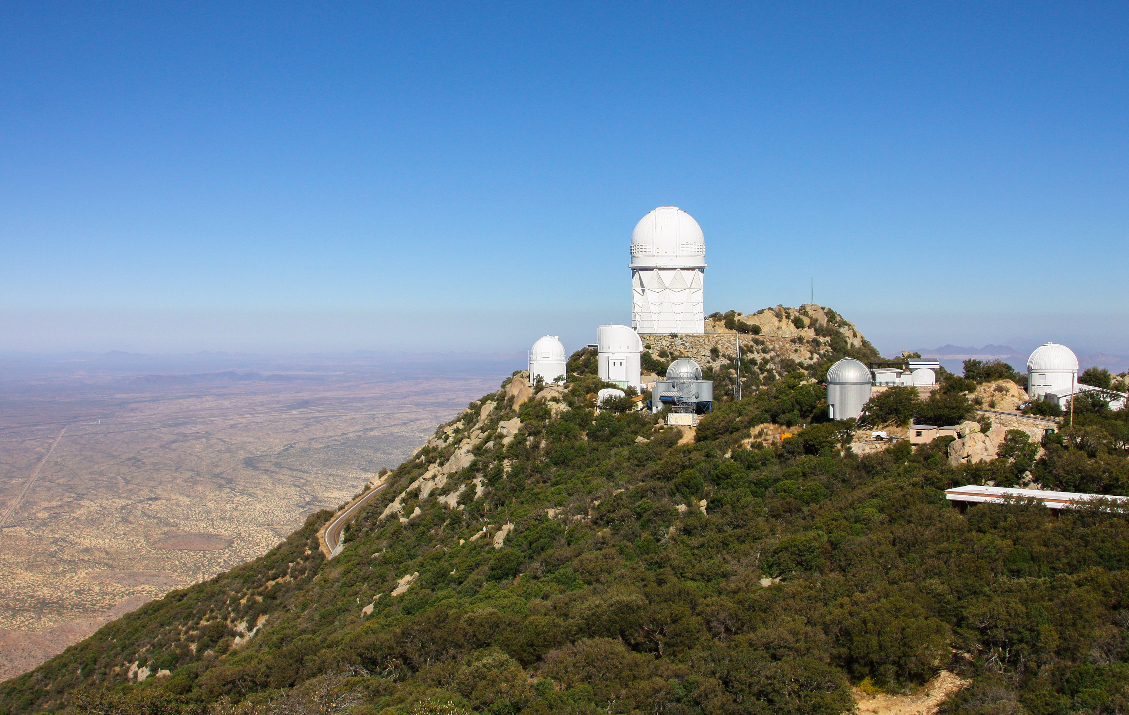 The National Observatory at Kitt Peak is one of the world's largest and most diverse astronomical centers. Six of the twenty-four instruments present on the grounds, including the prominent Mayall 4-meter telescope, are visible here.